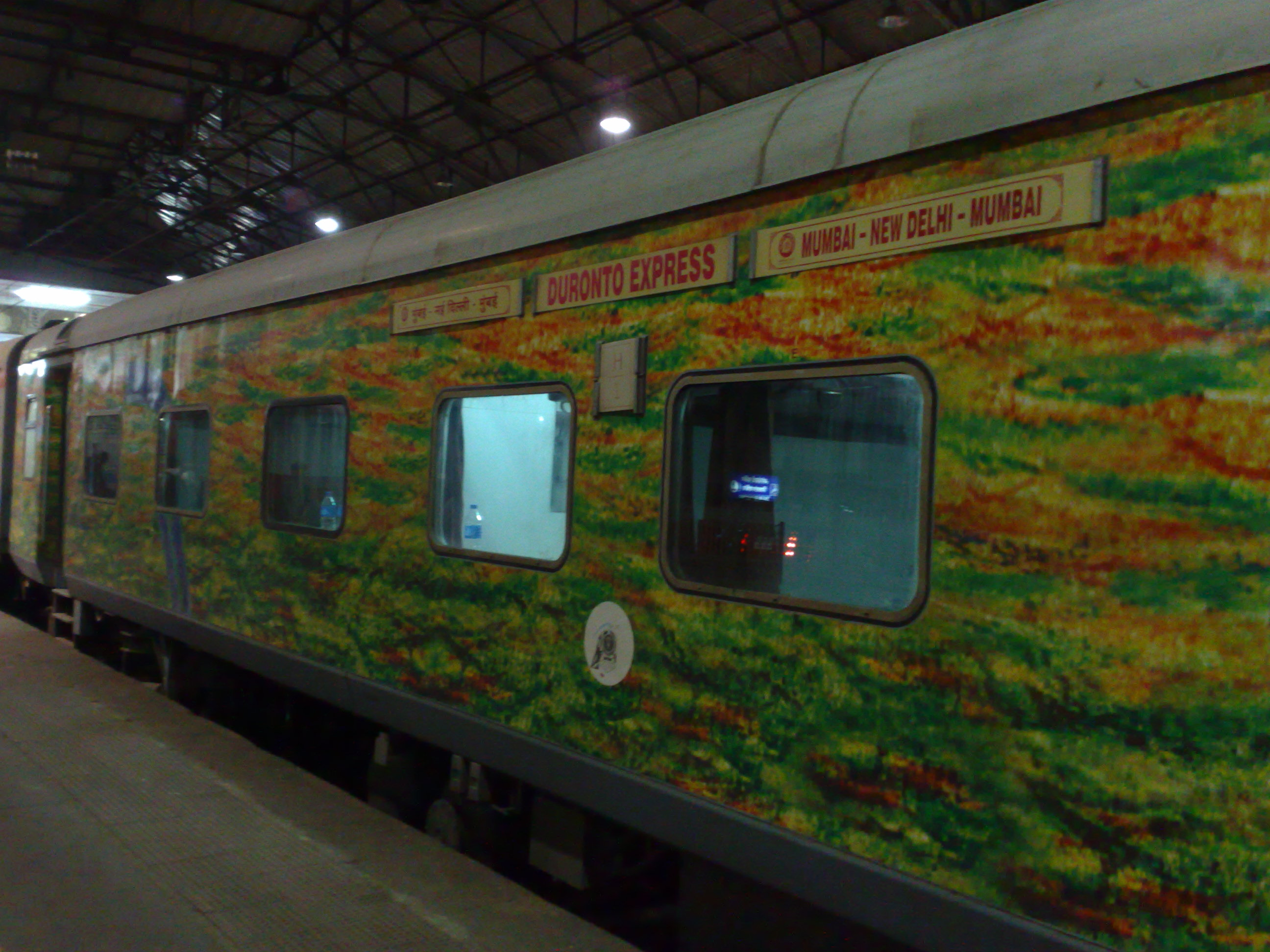 22210 Duronto Express - 1